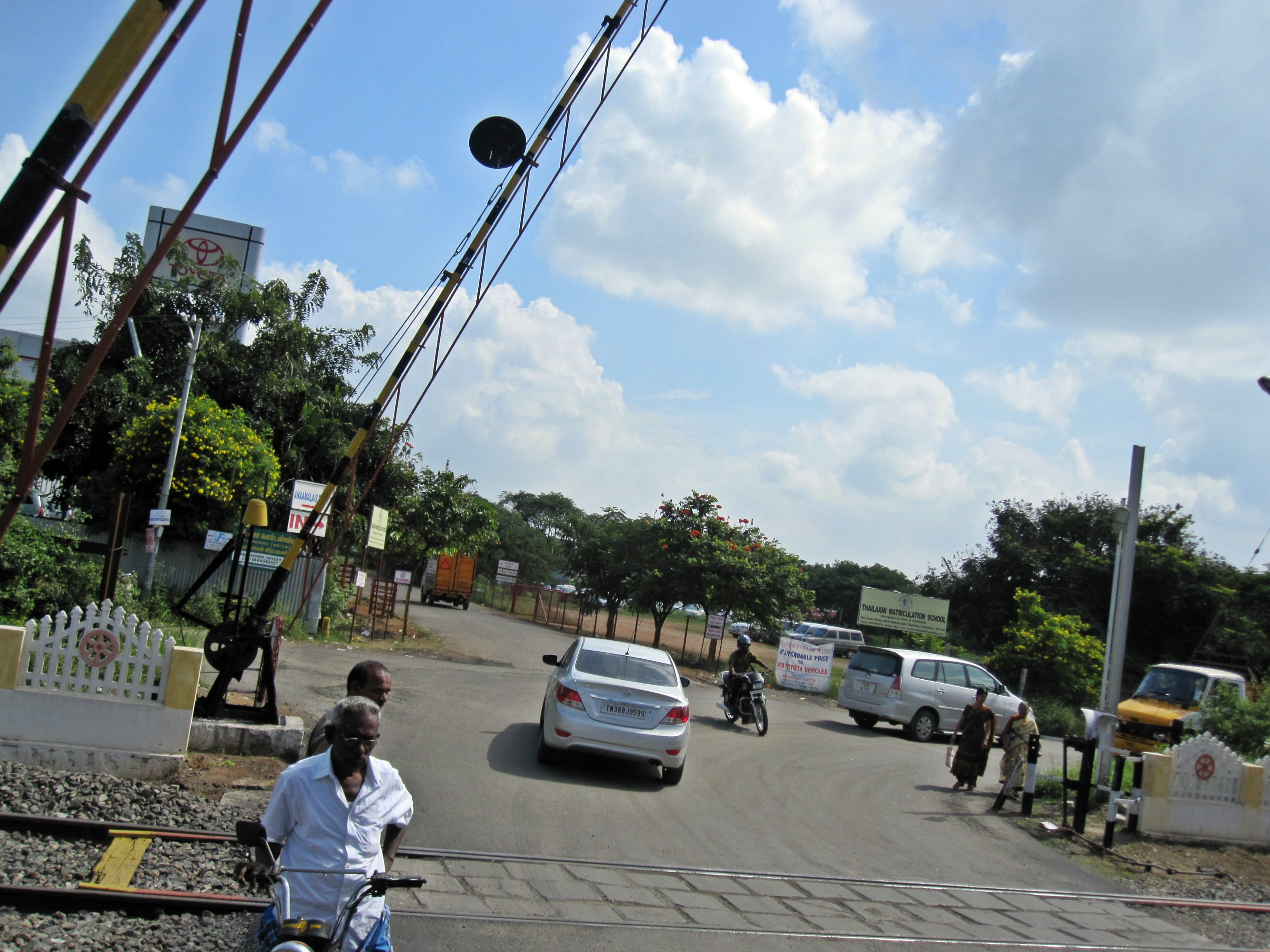 Thudiyalur railway crossing coimbatore. This is the coimbatore-mettupalayam railway track